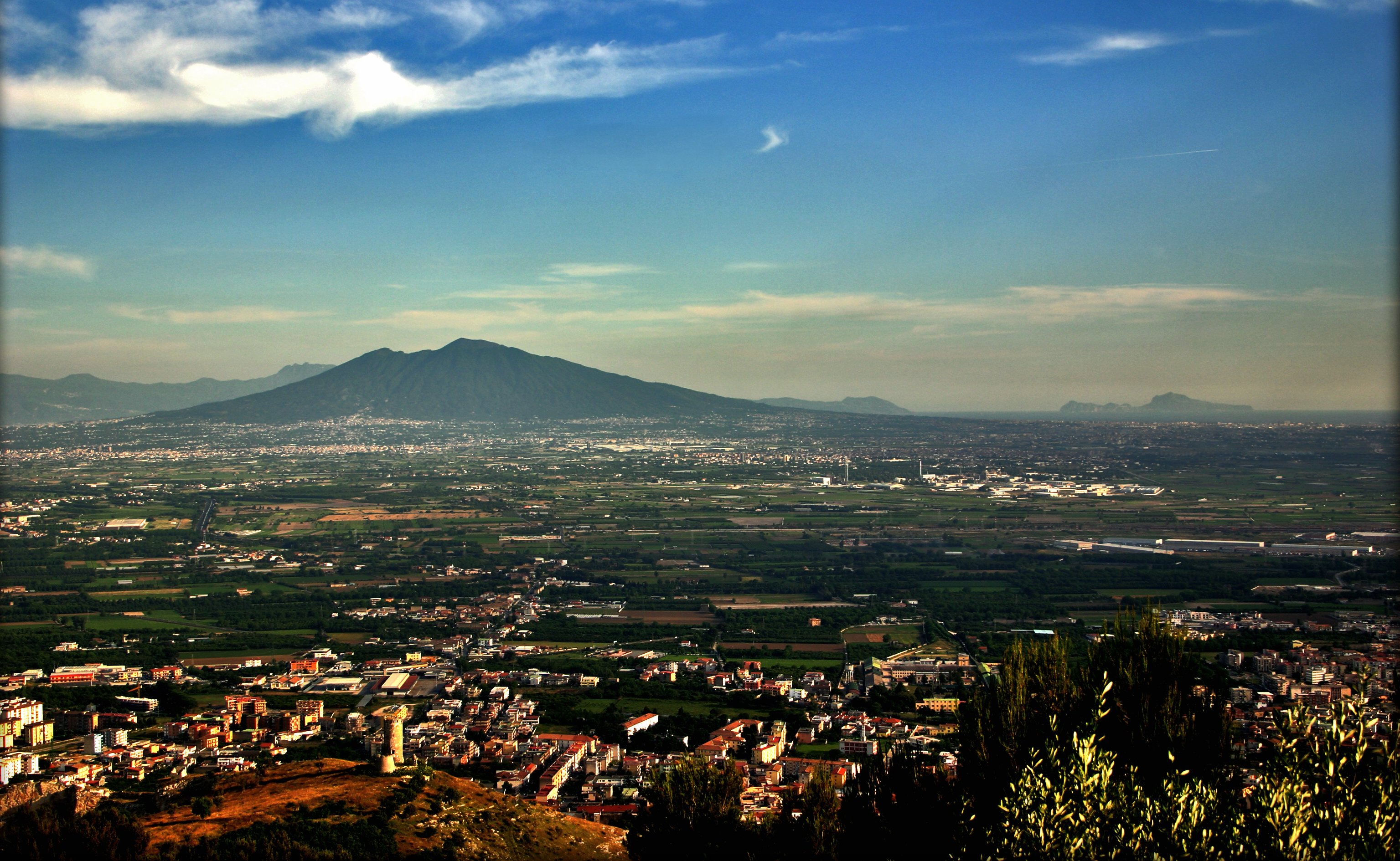 Viewpoint of Mount Vesuvius and Capri island from a hill of Maddaloni. Maddaloni is visible in the foreground.